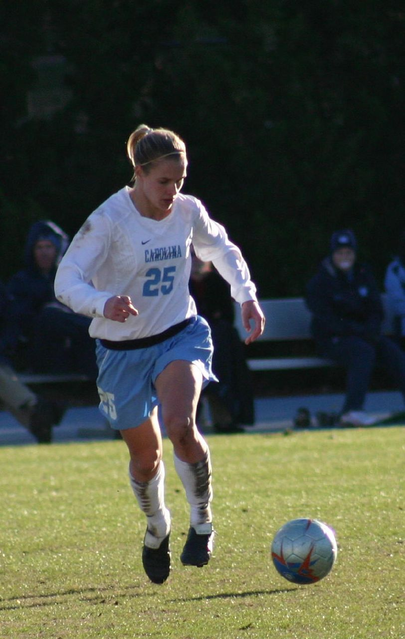 United States women's national team and former North Carolina soccer player Lindsay Tarpley